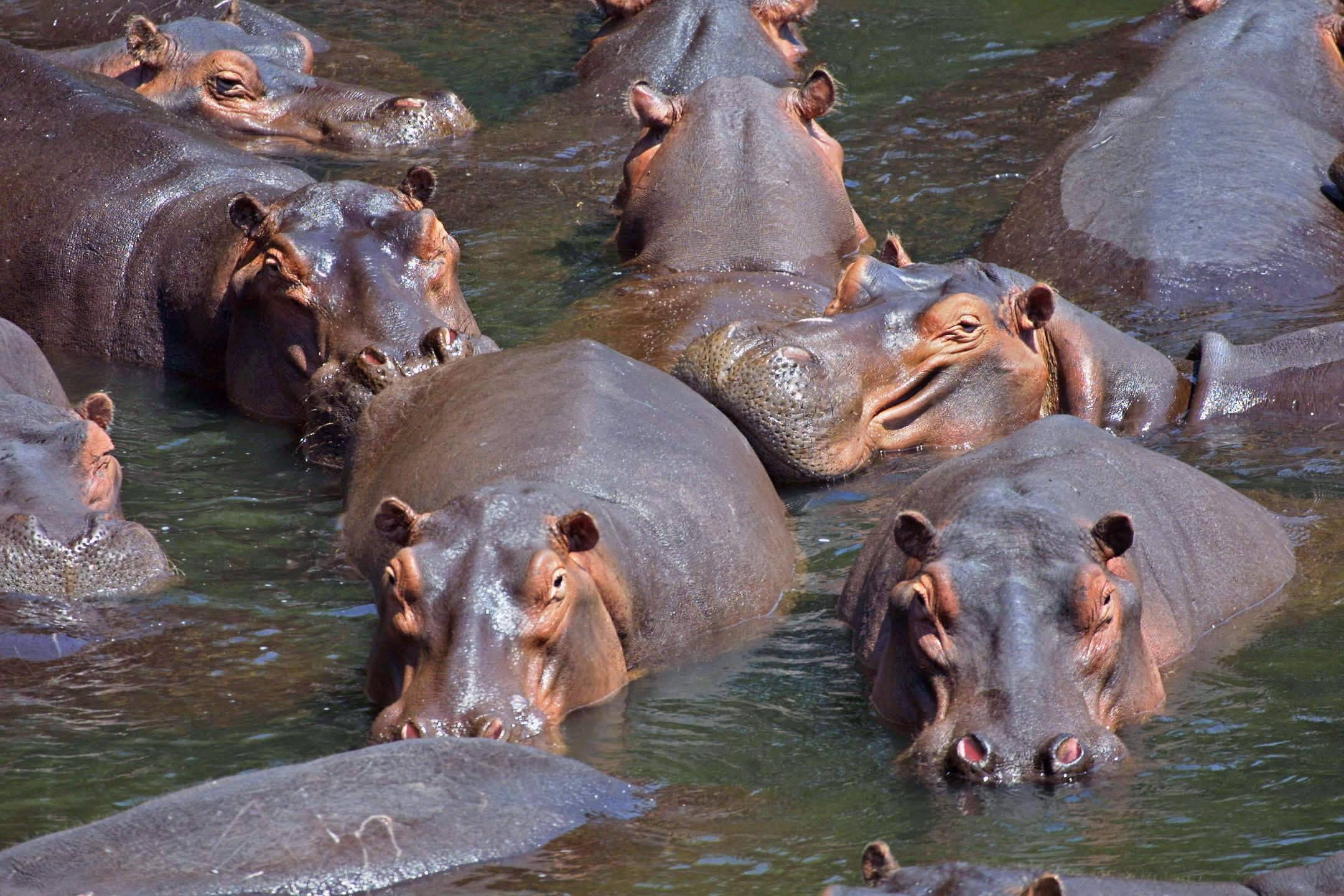 Pod of Hippos (Hippopotamus amphibius) in Luangwa Valley, Zambia